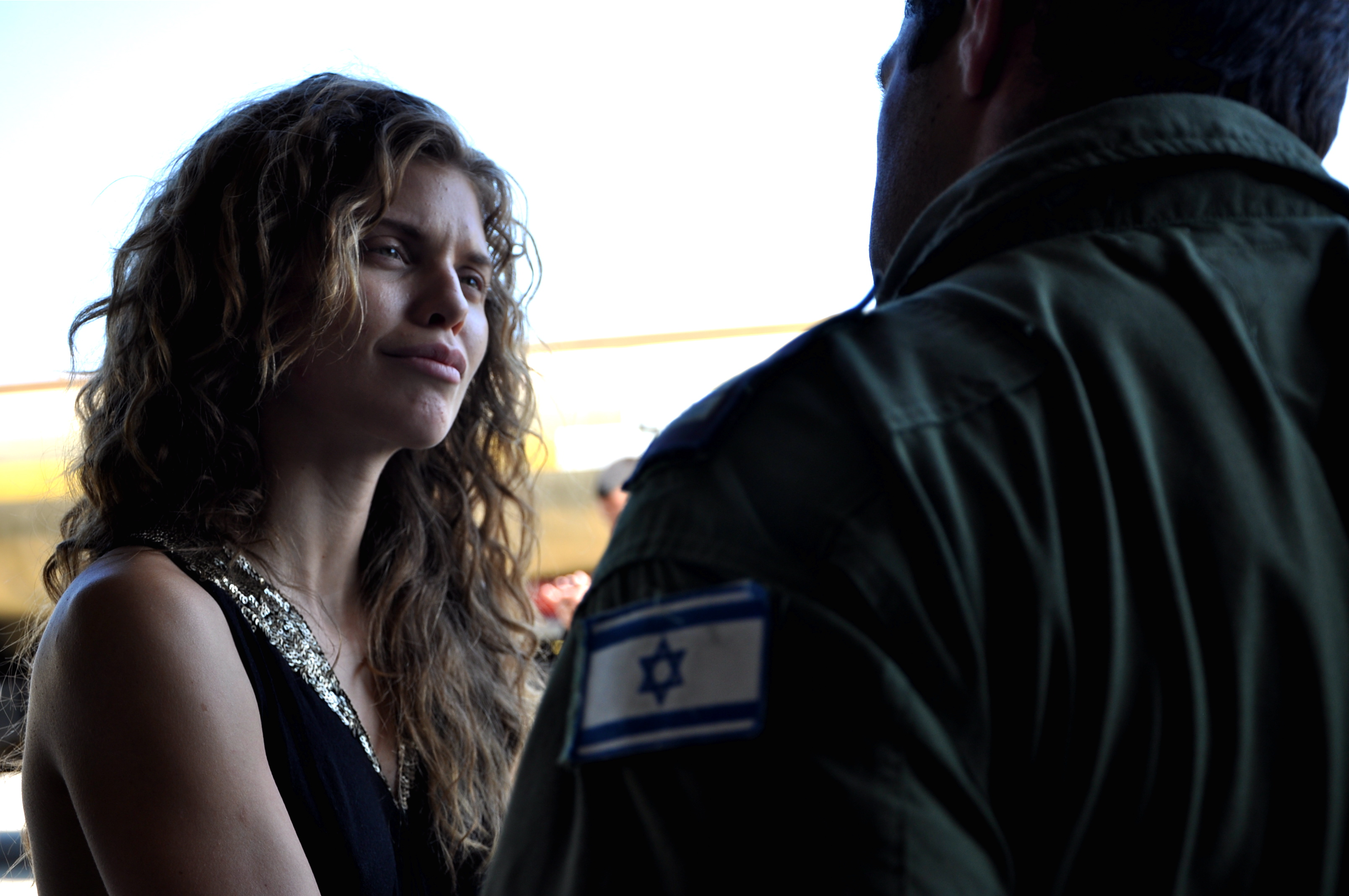 Several actors and celebrities visited the Palmachim Air Force base today, during a visit to Israel. Cpt. Amit, a Cobra pilot, with AnnaLynne McCord, also known as Naomi from the hit series 90210. The Israel Defense Forces Facebook The Israel Defense Forces blog The Israel Defense Forces website Follow us on Twitter